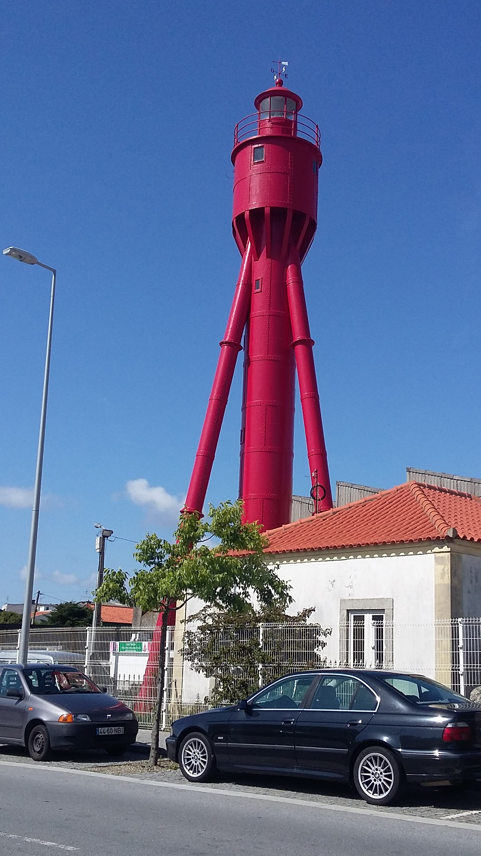 Refuge Lighthouse in Povoa de Varzim, Portugal